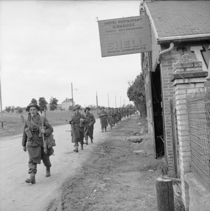 The British Army in Normandy 1944 Gordon Highlanders advance into Benouville on the Caen canal, 7 June 1944.